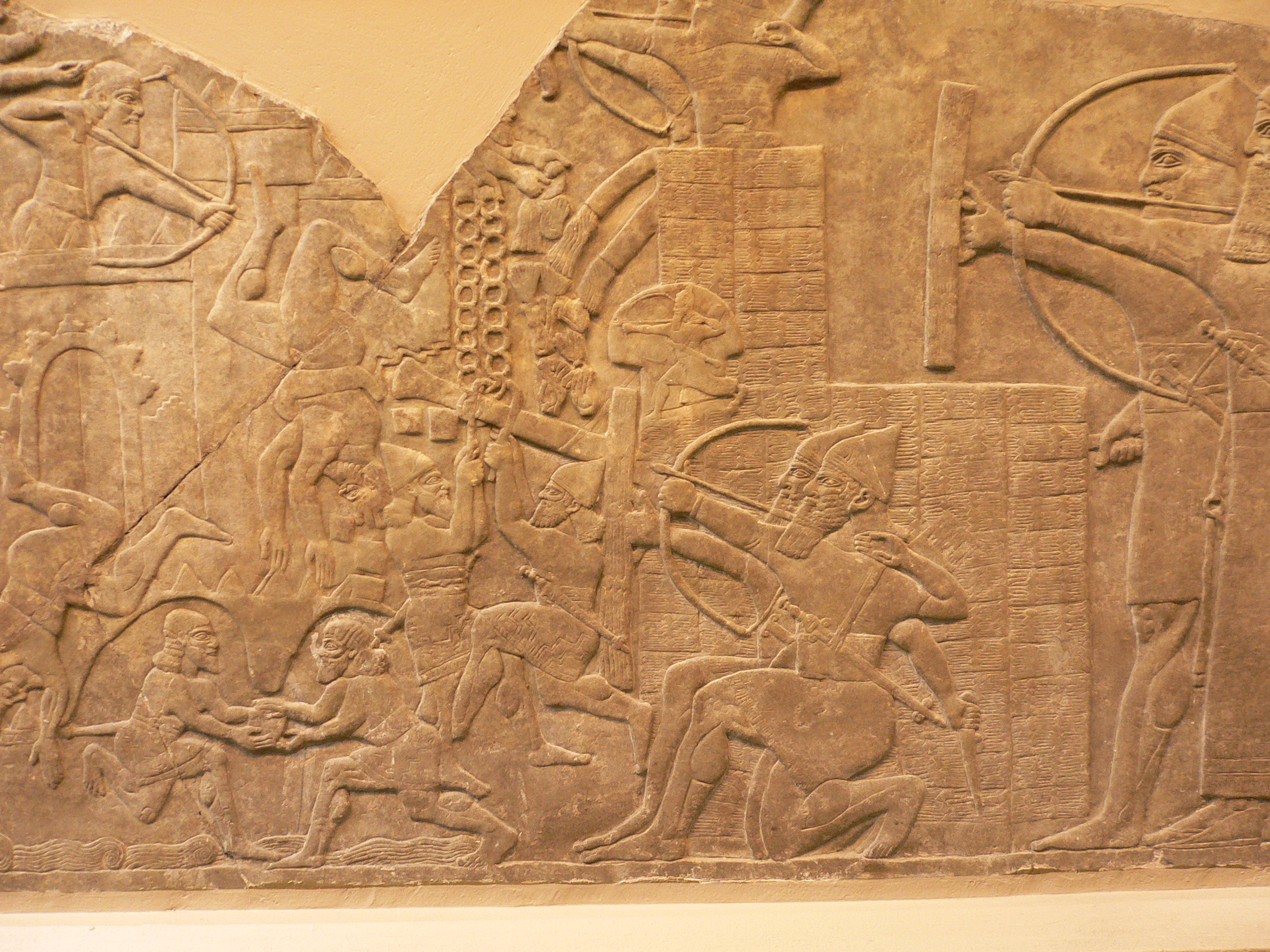 Assyrian battering and archers.